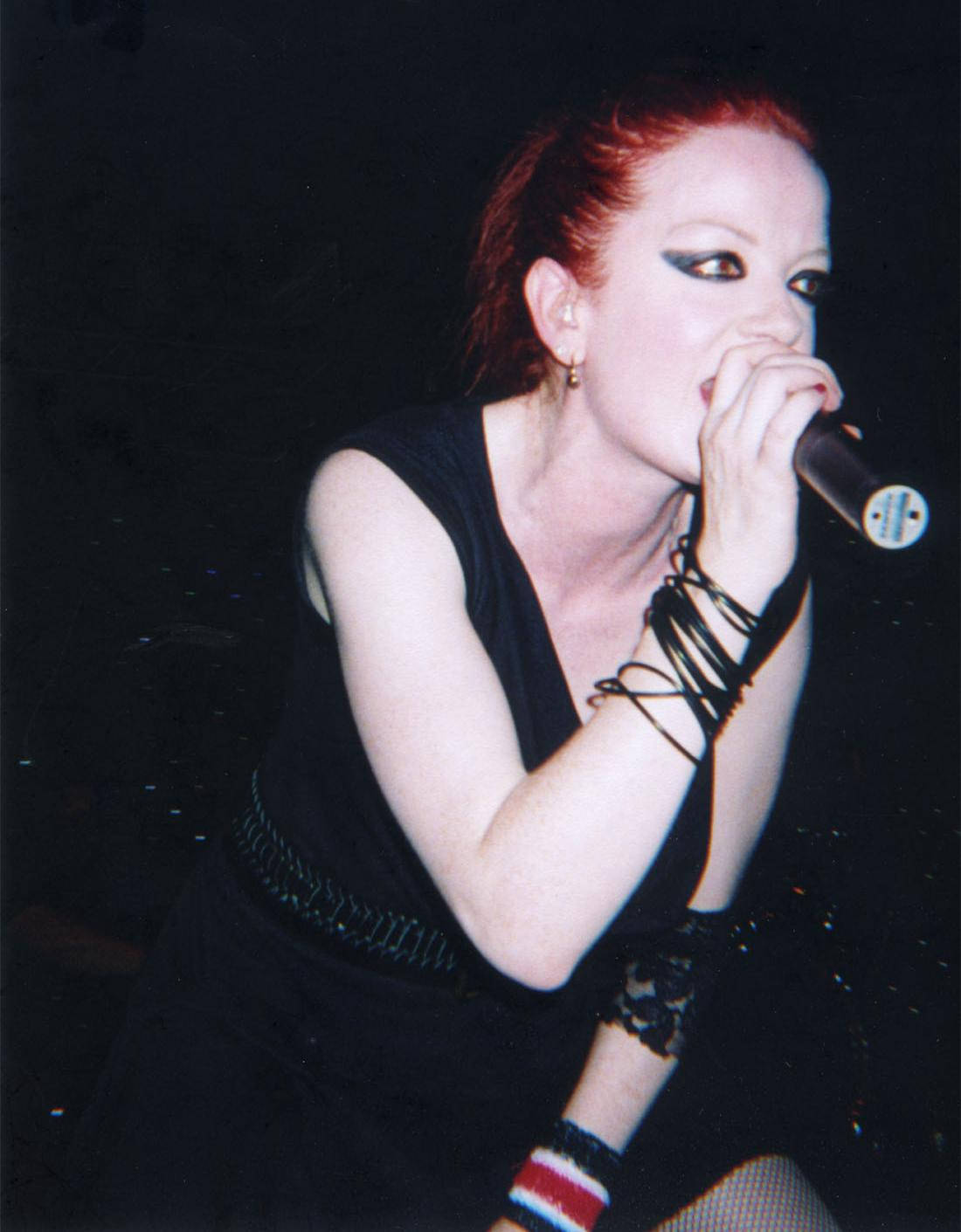 Shirley Manson from Garbage